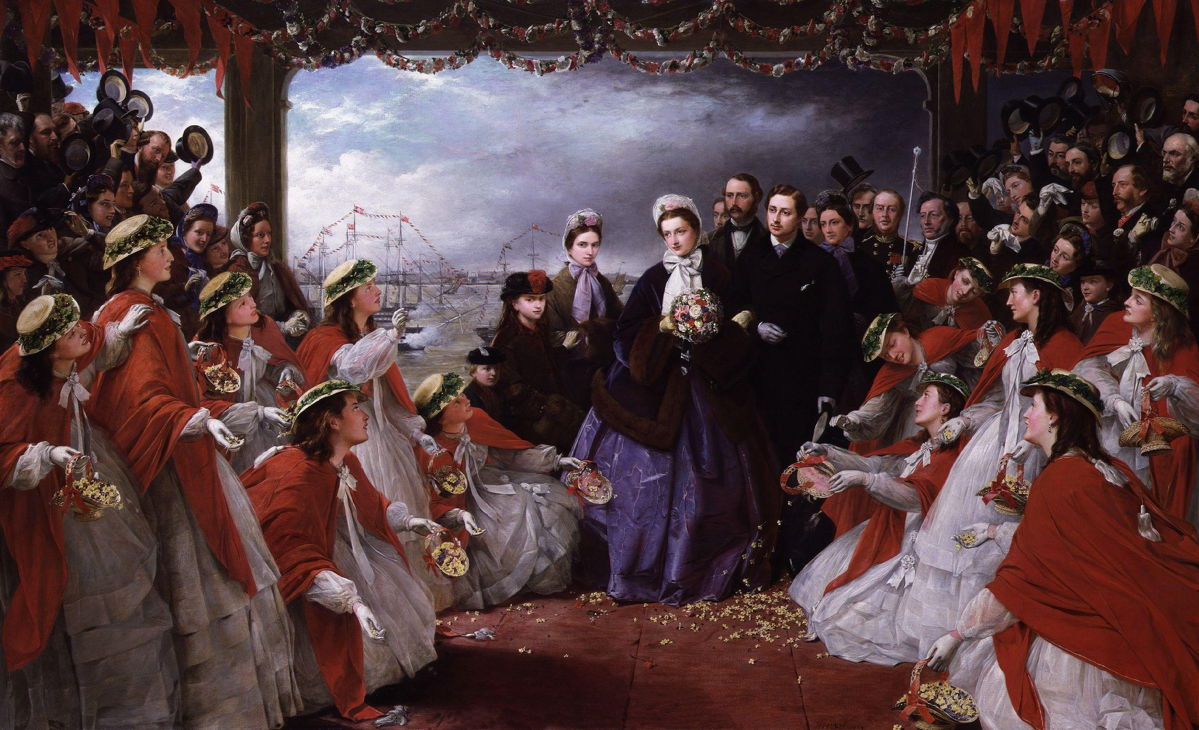 The Landing of HRH The Princess Alexandra at Gravesend, 7th March 1863, by Henry Nelson O'Neil (died 1880). All images in this batch have been confirmed as author died before 1939 according to the official death date listed by the NPG.